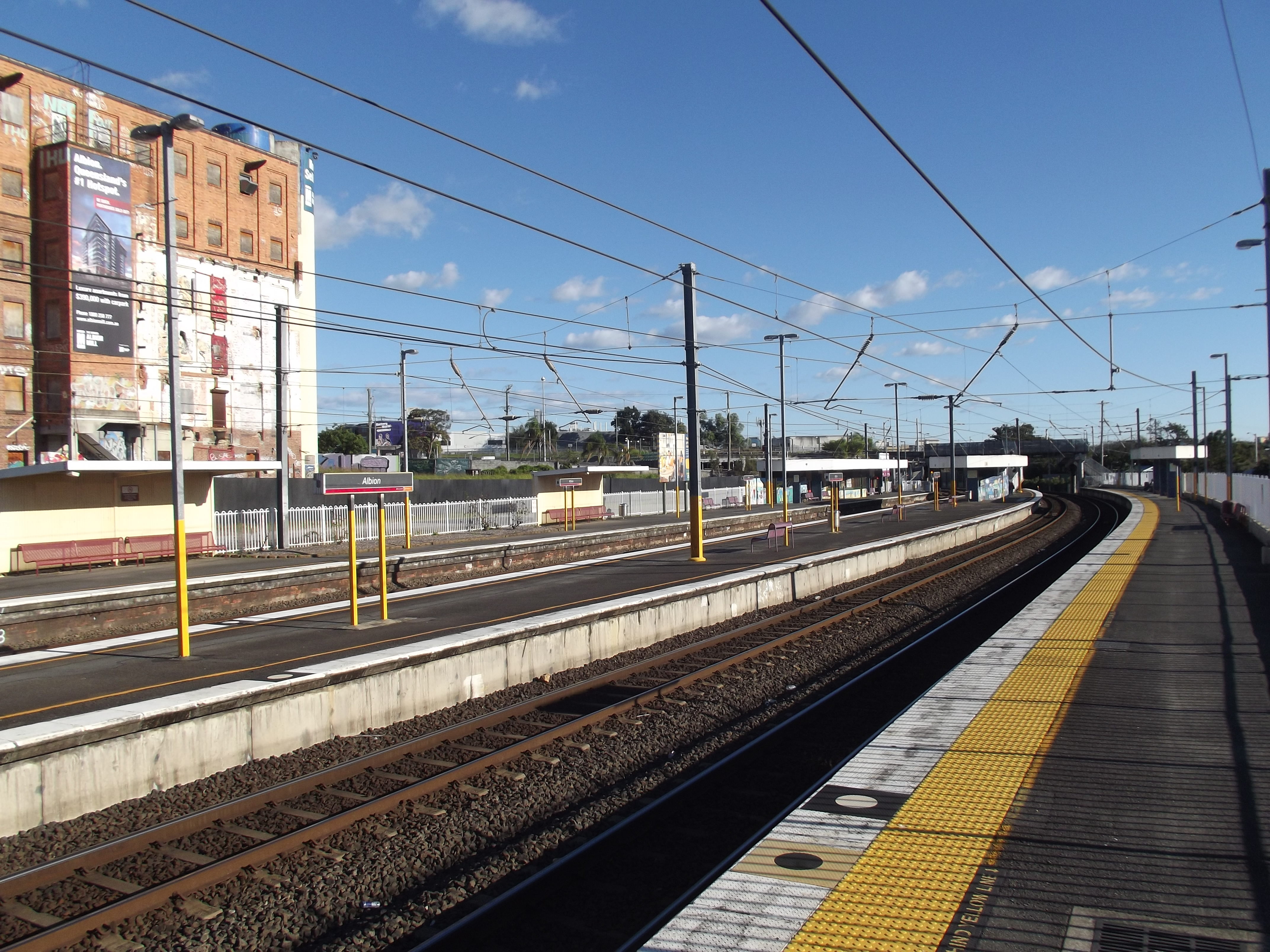 A photo of the Albion railway station, operated by TransLink, located in Brisbane, Queensland.